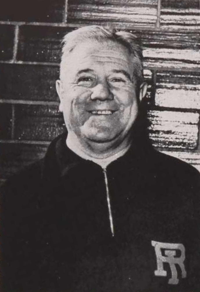 University of Rhode Island Rams basketball coach Frank Keaney from the 1943 “Grist” yearbook.